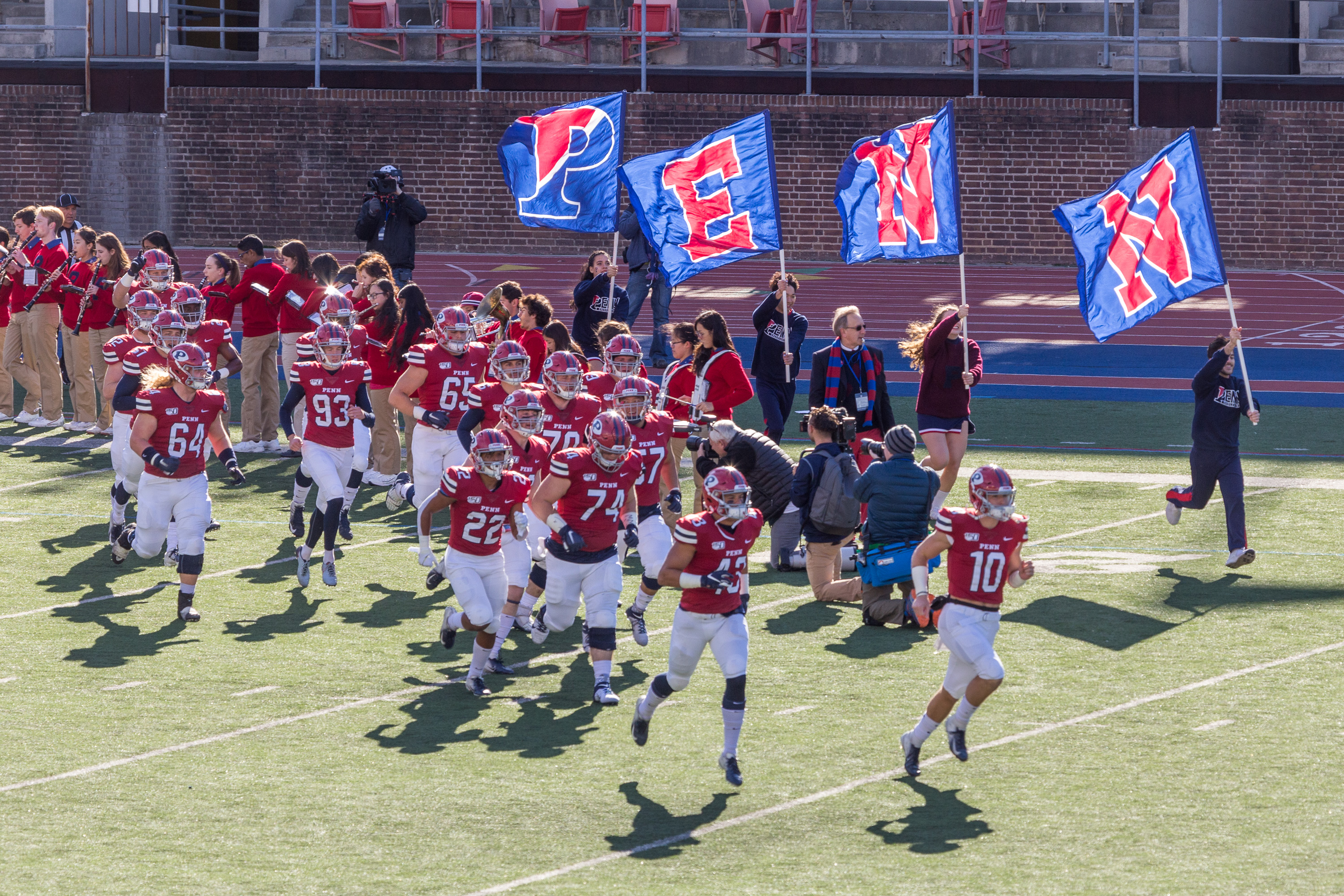 UPenn vs. Cornell football, November 9, 2019. Penn won, 21-20.